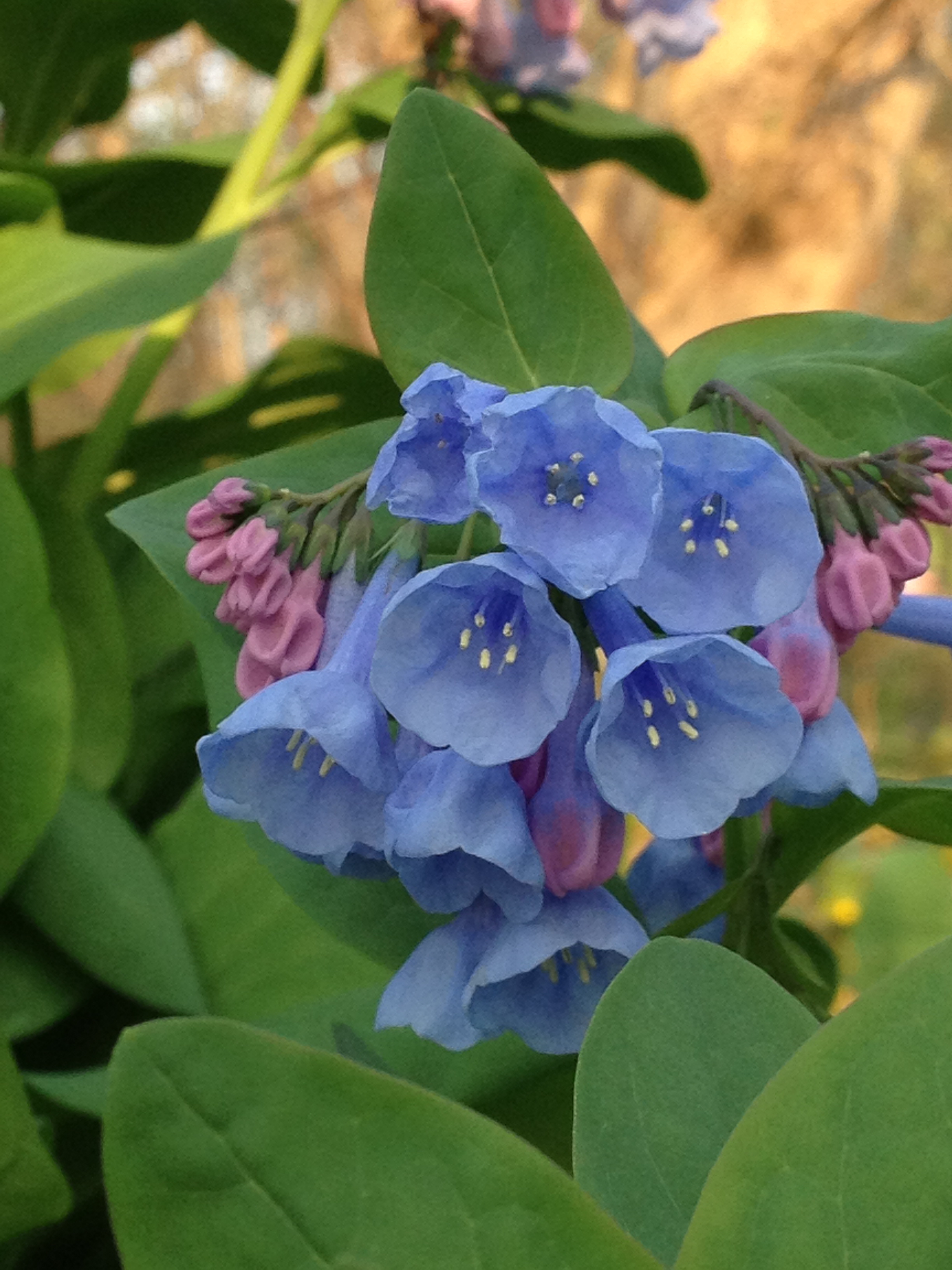 Photograph of Mertensia virginica in flower. This is a native plant growing wild on Theodore Roosevelt Island, in Washington, D.C., USA. This species is a member of the Boraginaceae family.